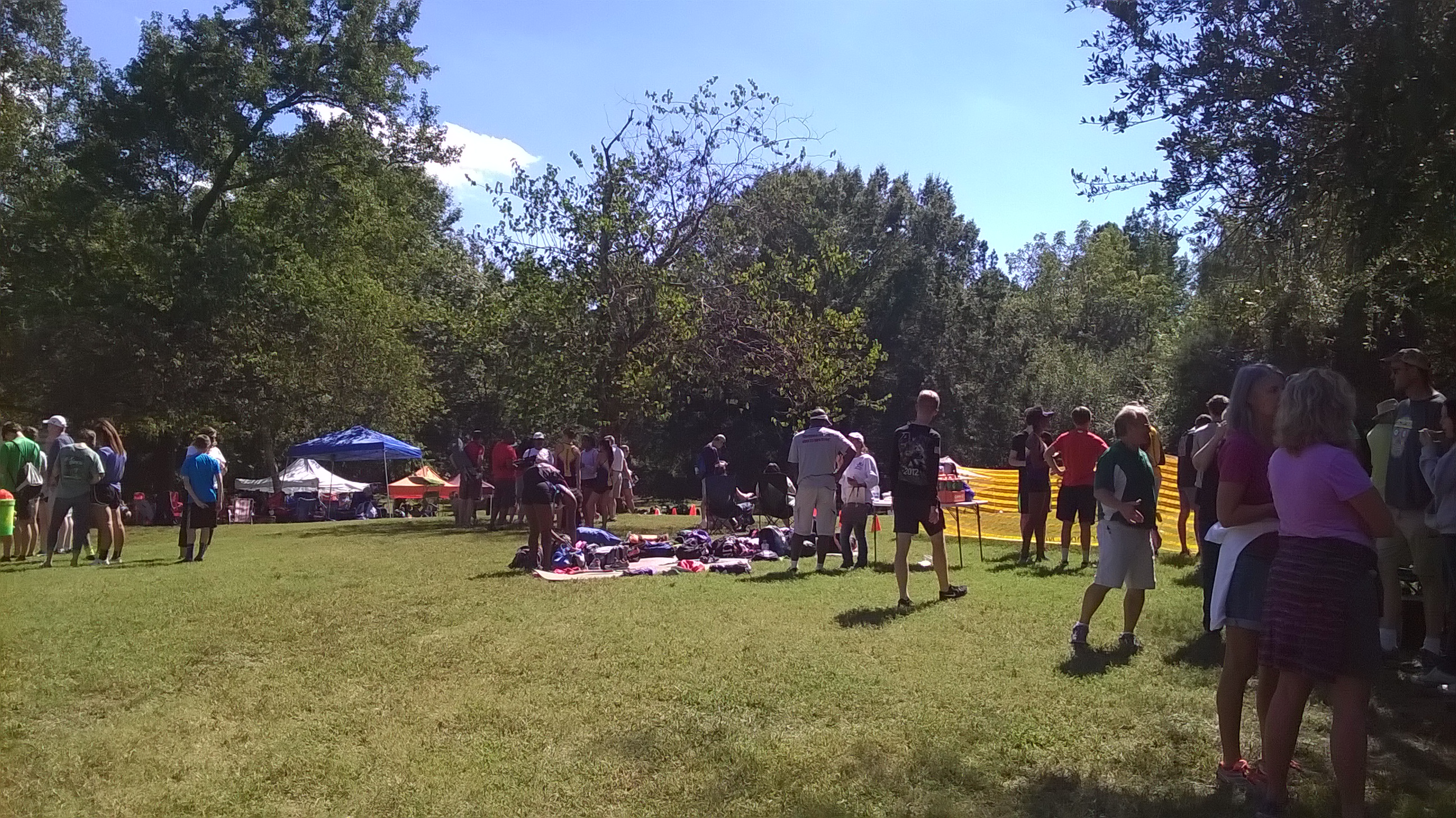 Hagan Stone Park park near Greensboro, North Carolina. During 2016 Greensboro Invitational Cross Country Meet